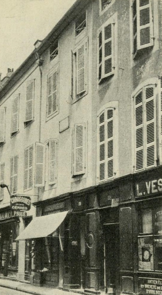 Birthplace of Théophile Gautier, at Tarbes.